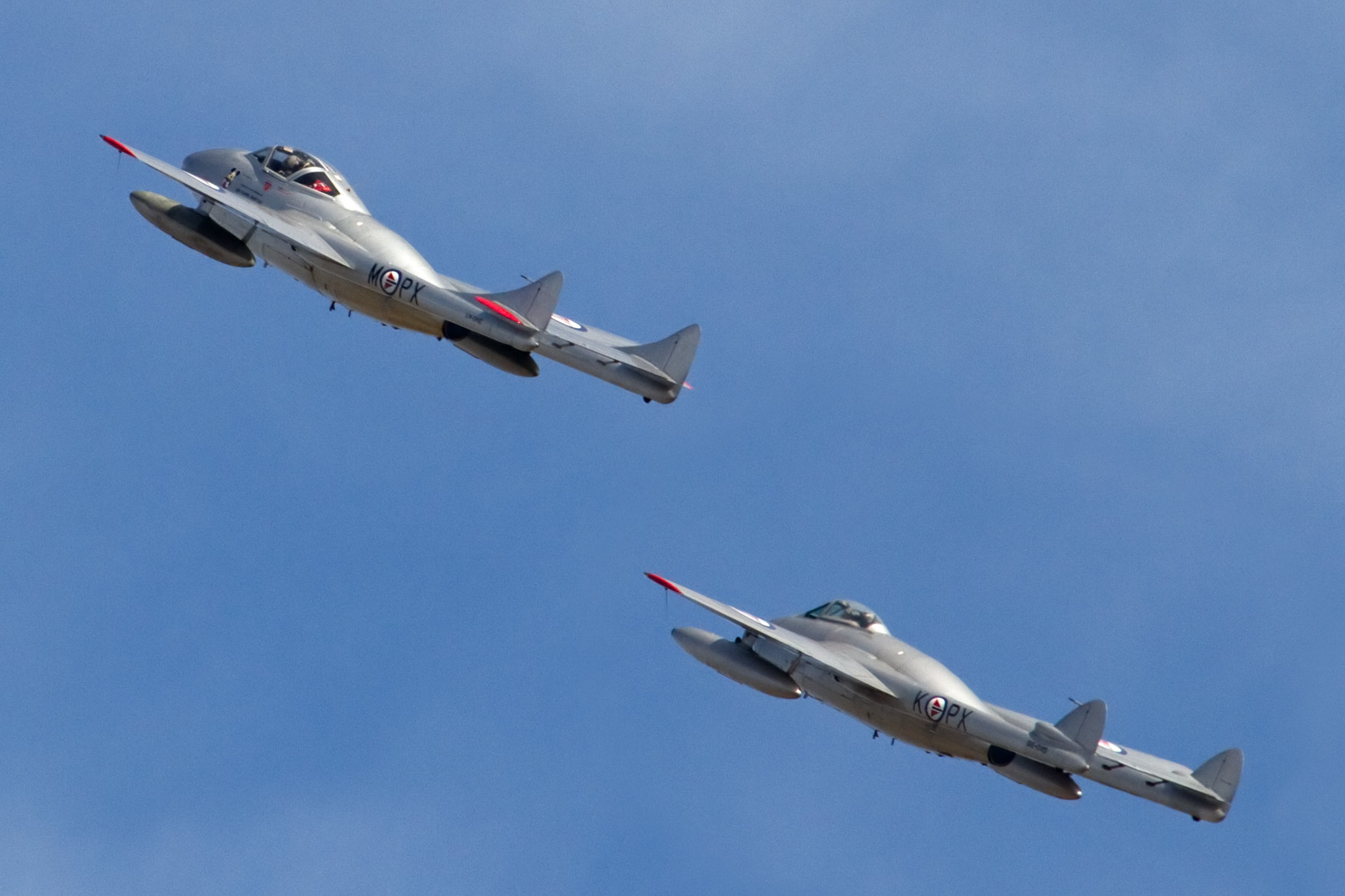 Norwegian Vampires 8a